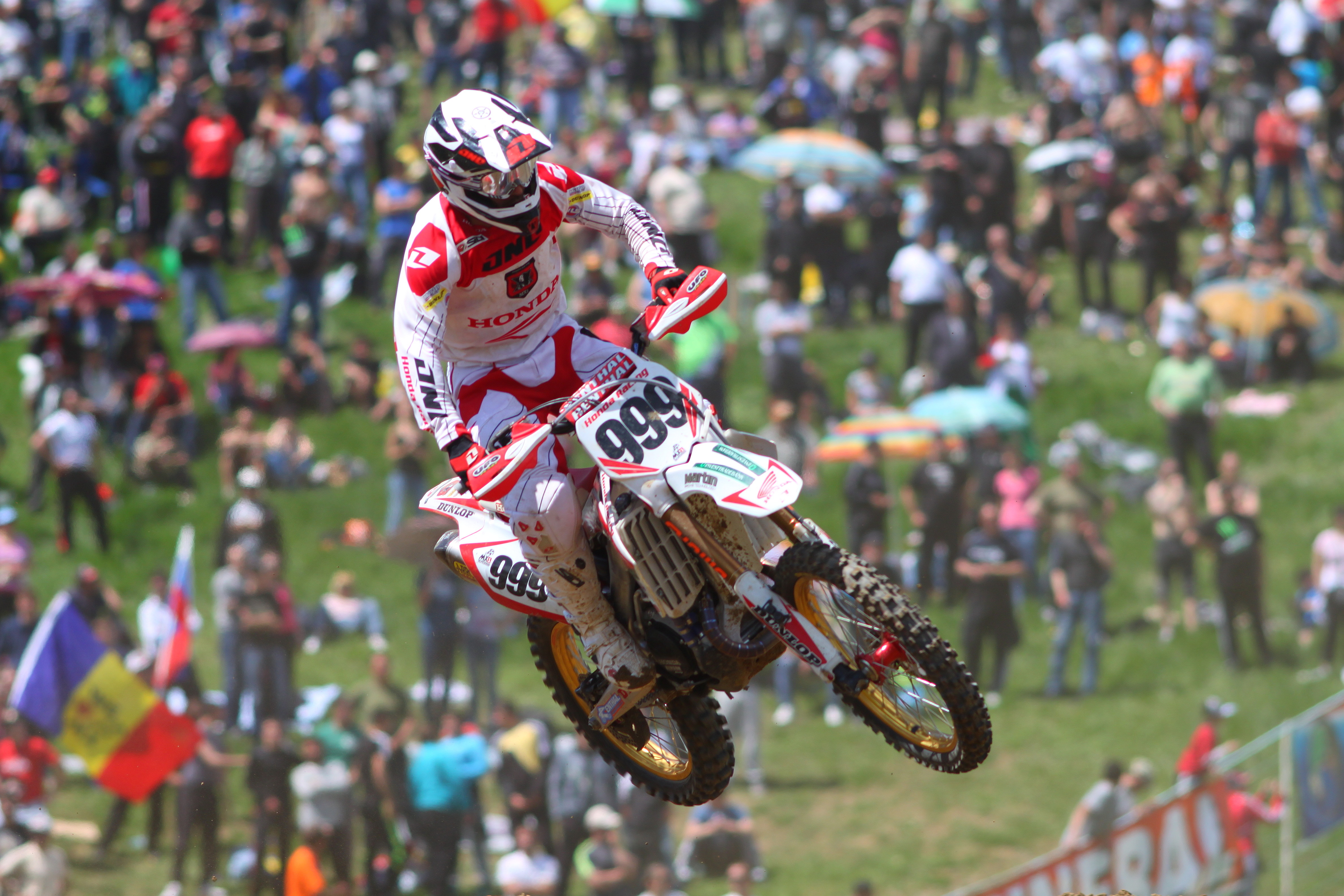 Rui Goncalves - МХ1 motocross rider from Vidago, Portugal (Honda World Motocross)